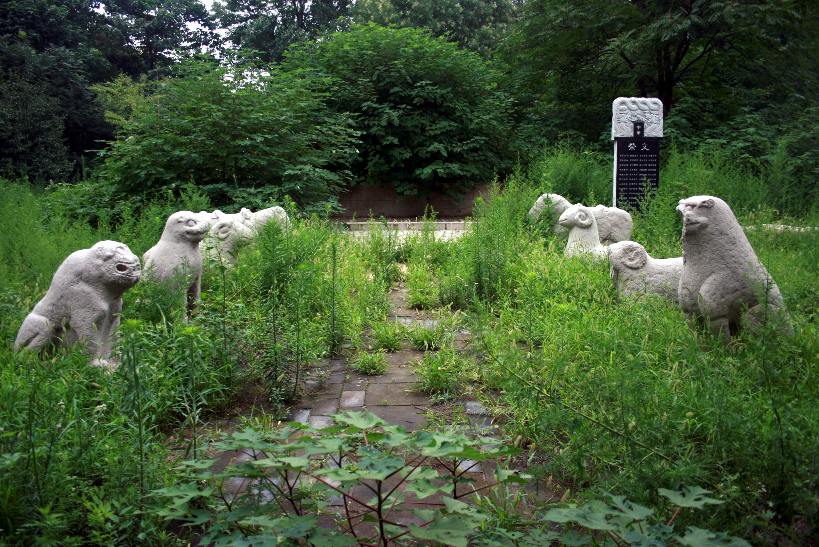 Photograph of the spirit way on the site of the tomb of Min Ziqian in Jinan, Shandong Province, China.